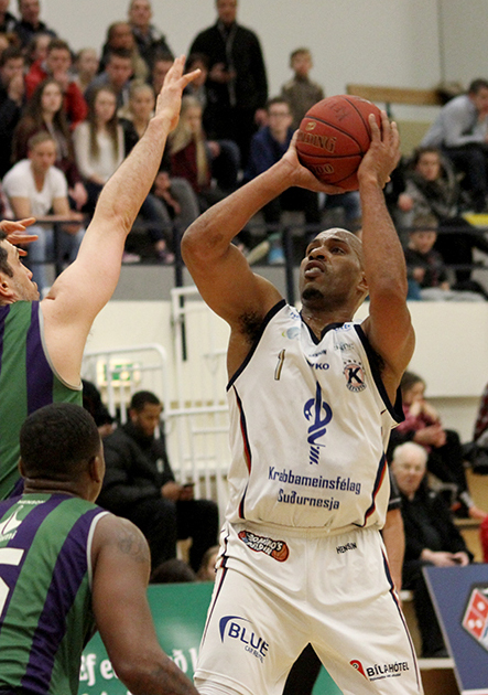 Damon Johnson with Keflavík men's basketball team in 2015.